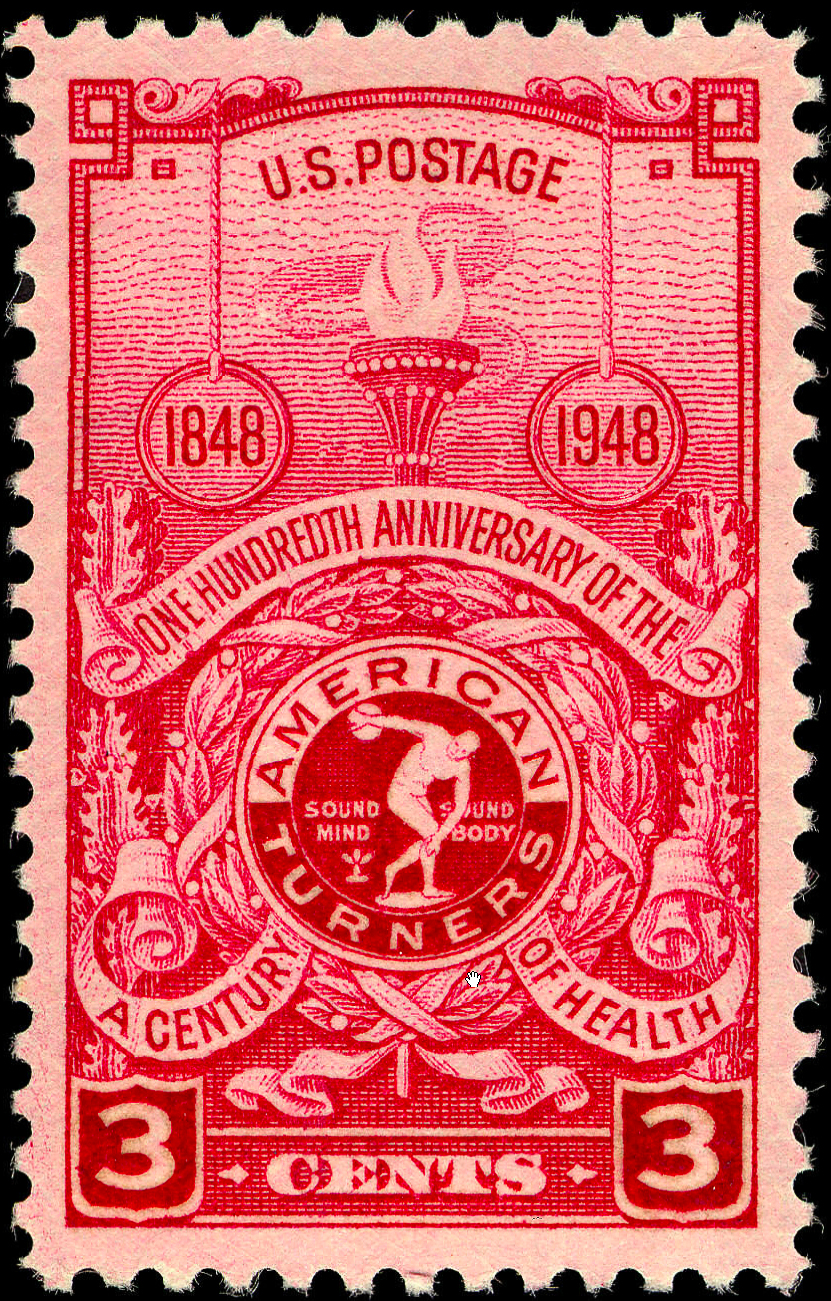 United States postage stamp (Scott 979) commemorating the centenary of the American Turners.